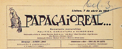 Papagaio Real magazine, April 7, 1914